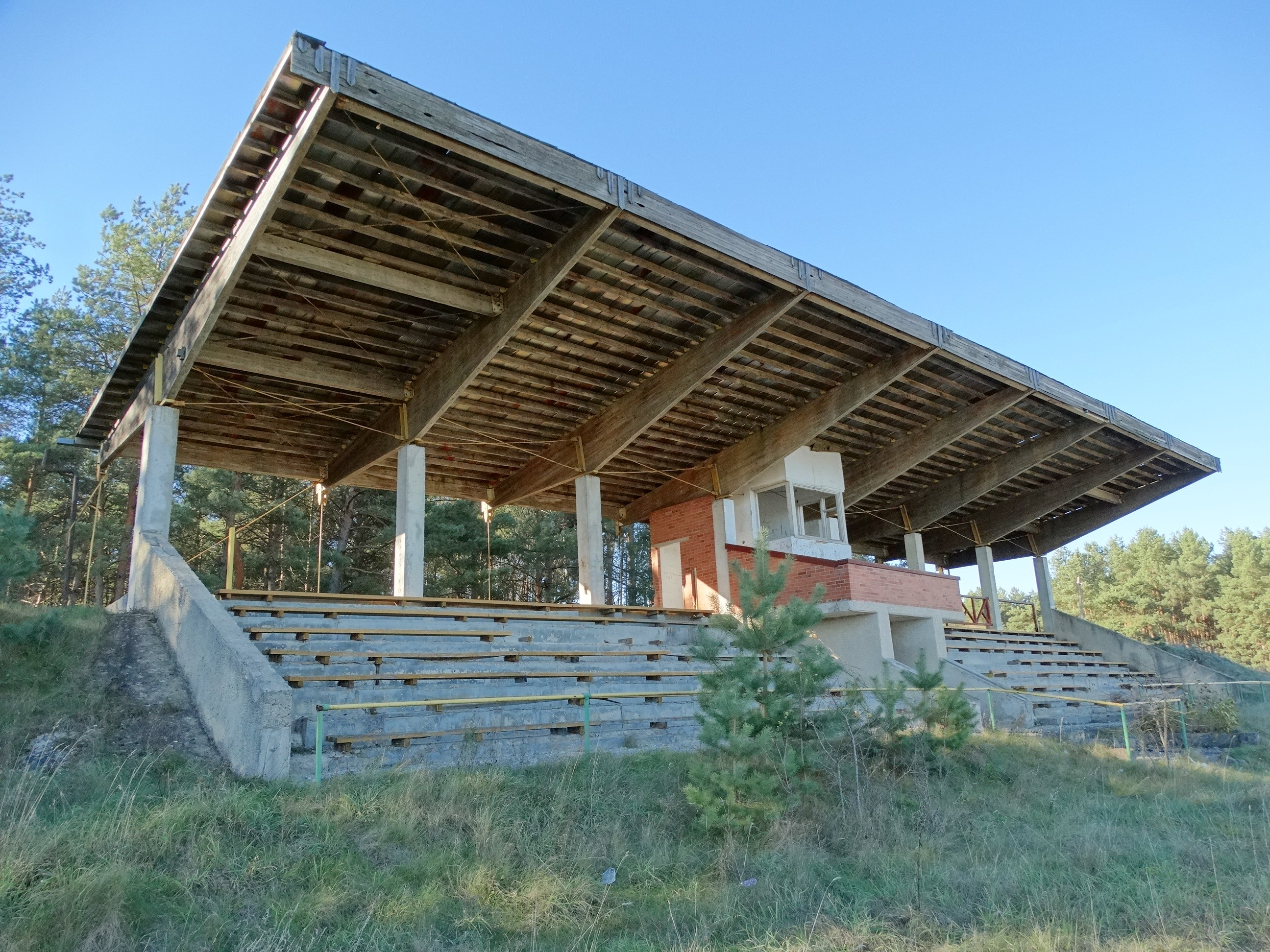 Hippodrome, spectator area, Butrimonys, Alytus district, Lithuania